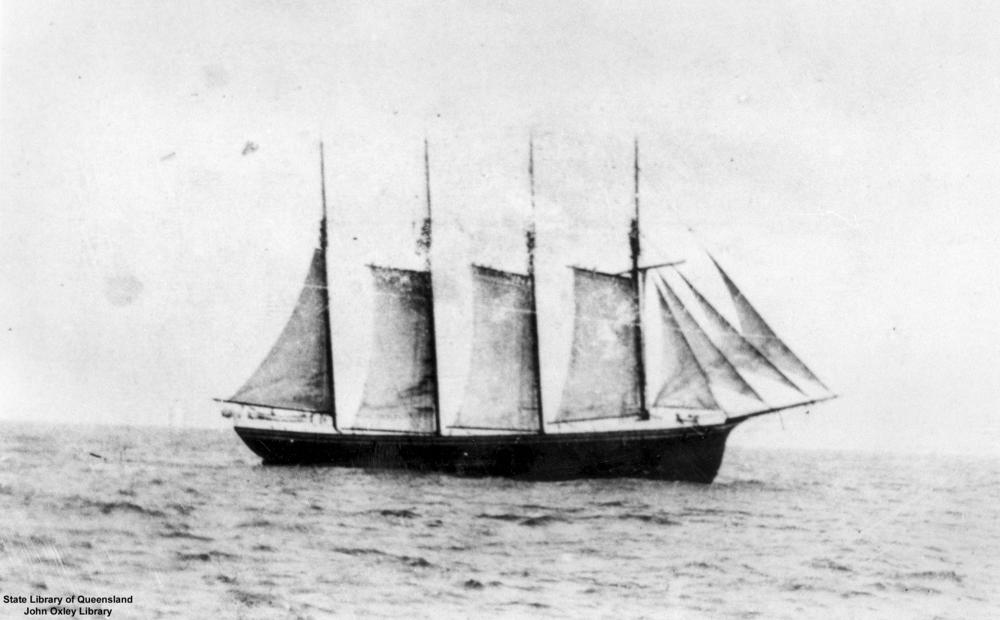 Carrier Dove (ship)